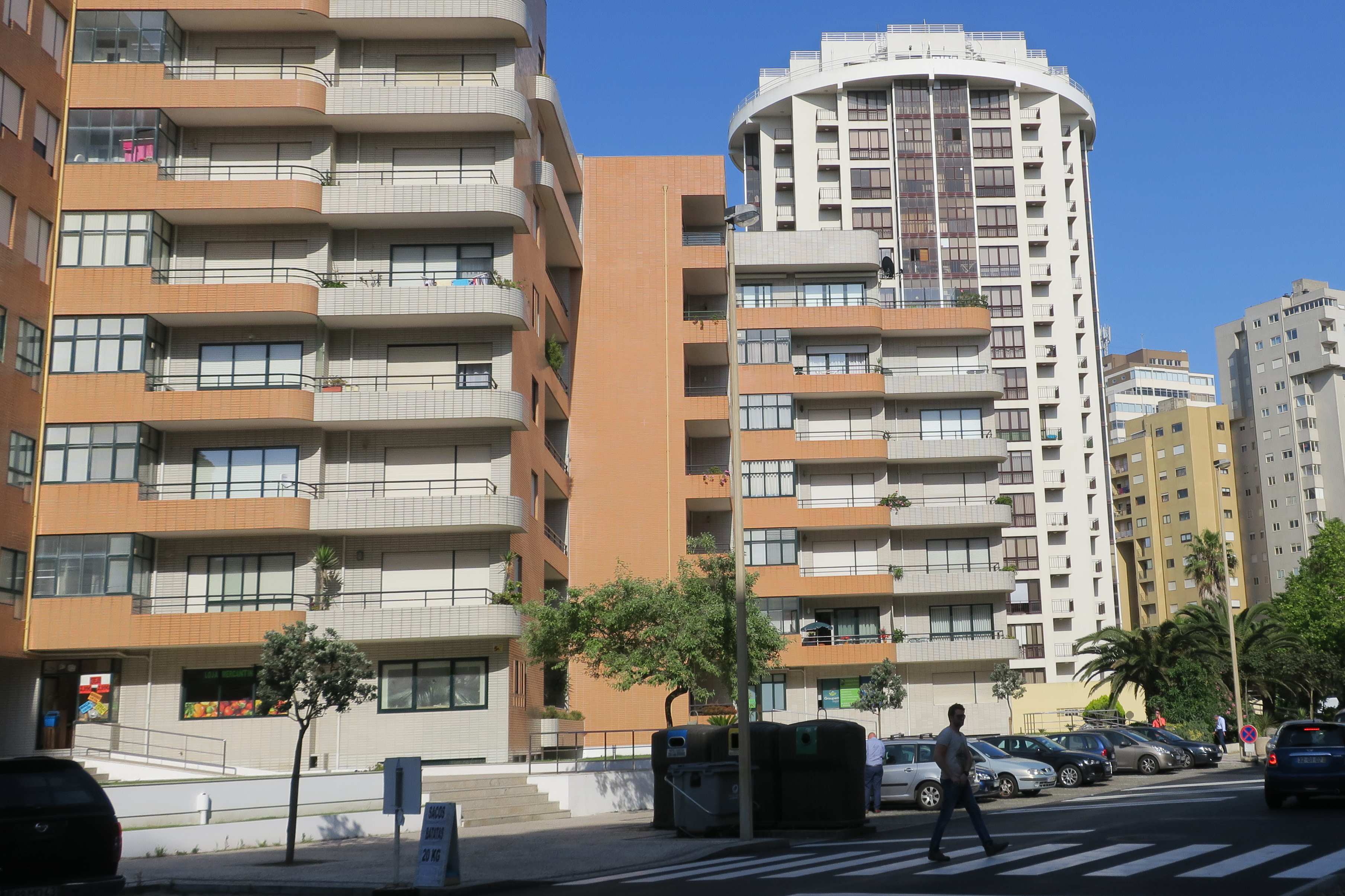 Nova Povoa, Povoa de Varzim